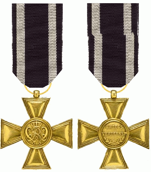 Goldenes Militär-Verdienstkreuz Golden Cross of Miltary Merit, Prussia